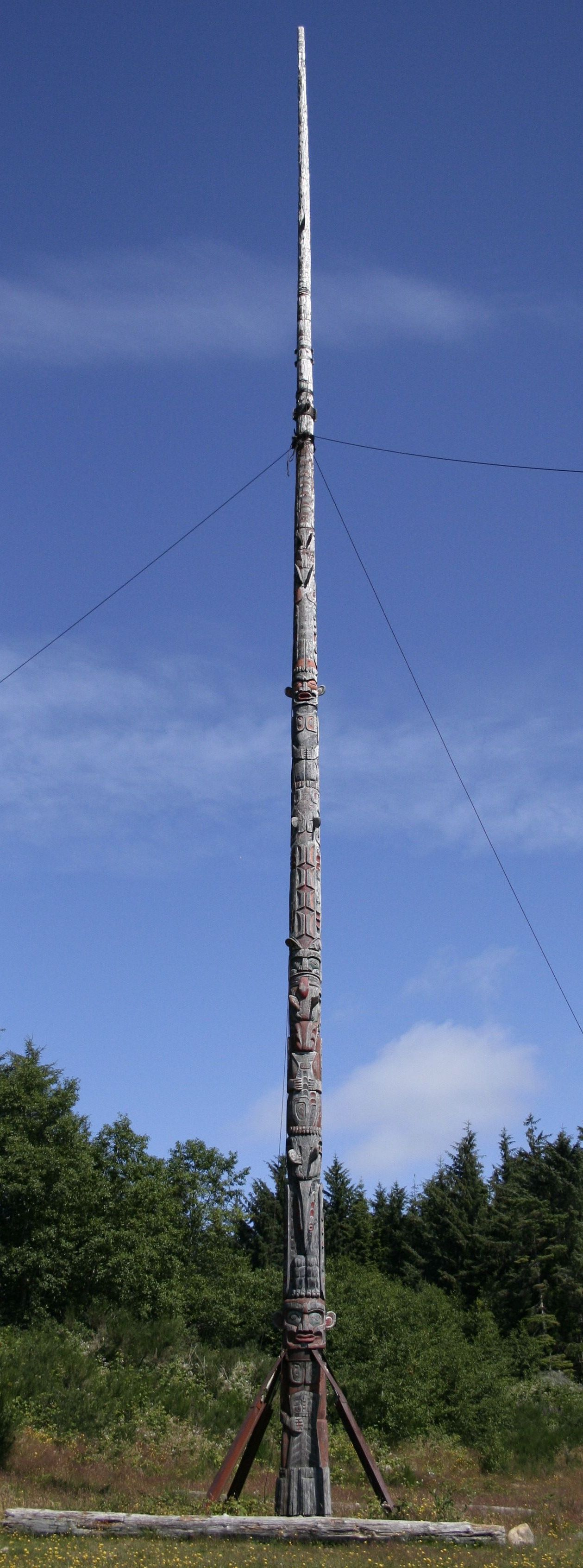 The world's tallest totem pole, near Alert Bay on Cormorant Island.